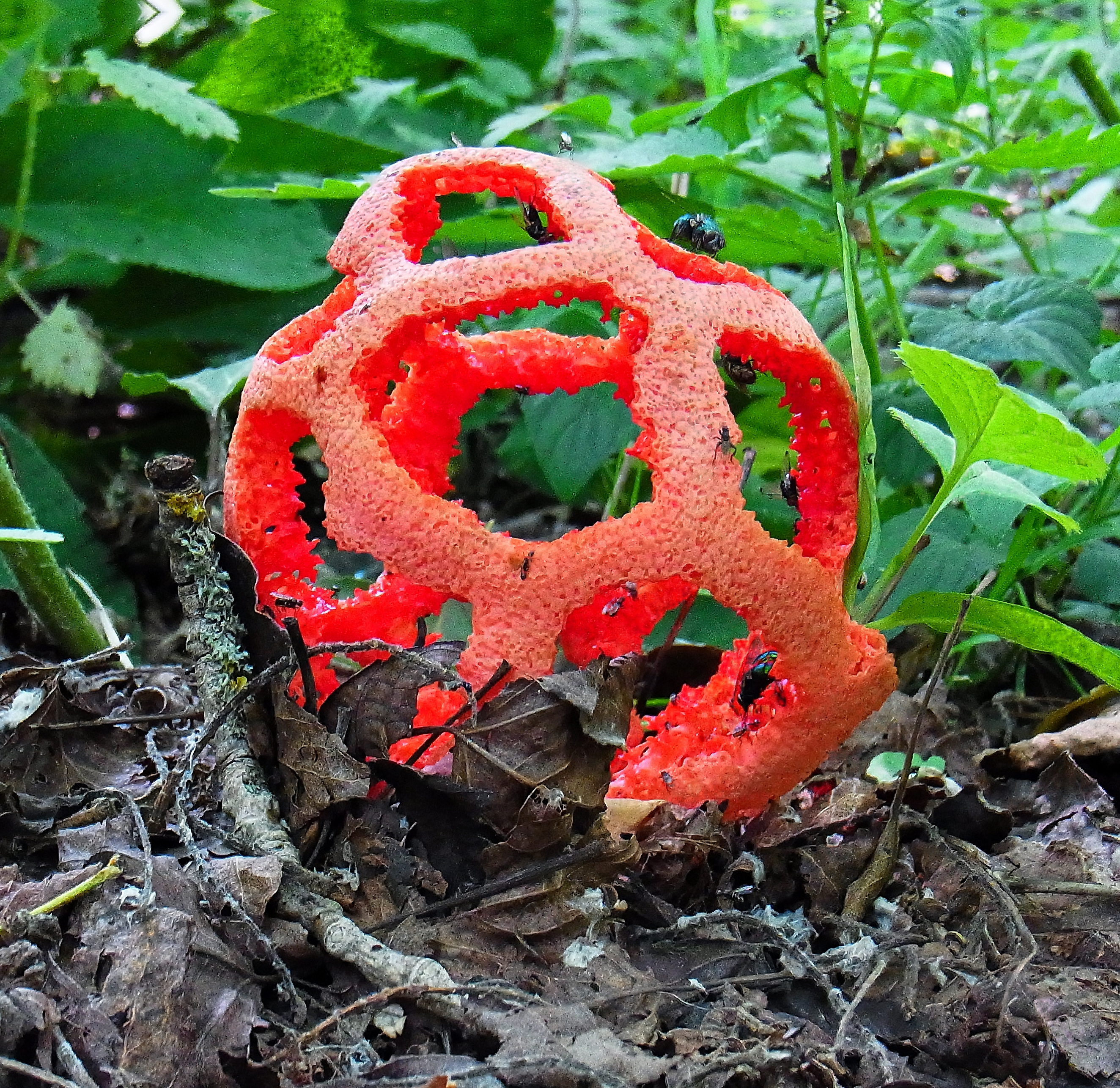 from Northern Spain beside a small river ar la Lomba near Reinosa at 2013-07-11